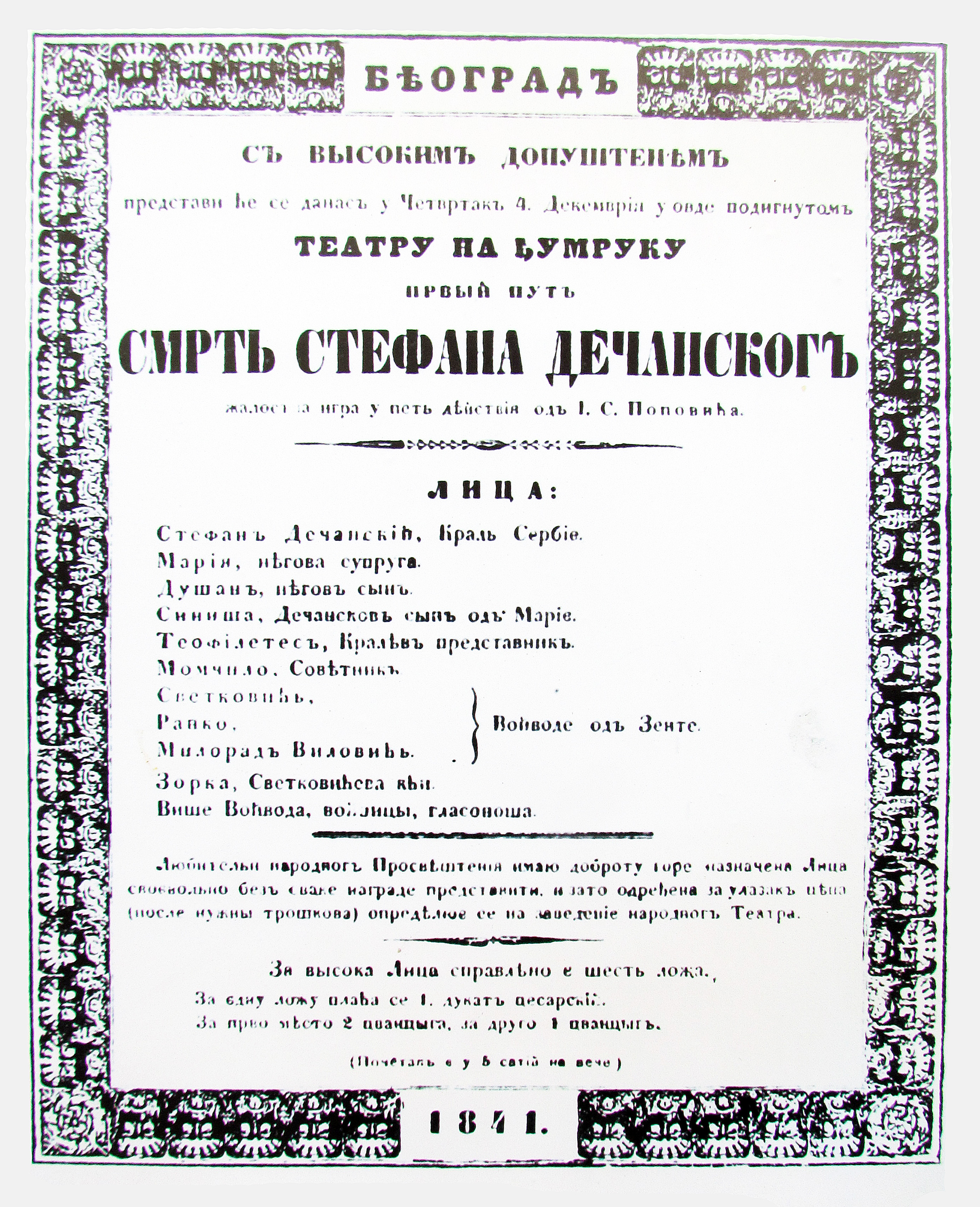 Theatre poster of Smrt Stefana Dečanskog, tragedy by Jovan Sterija Popović